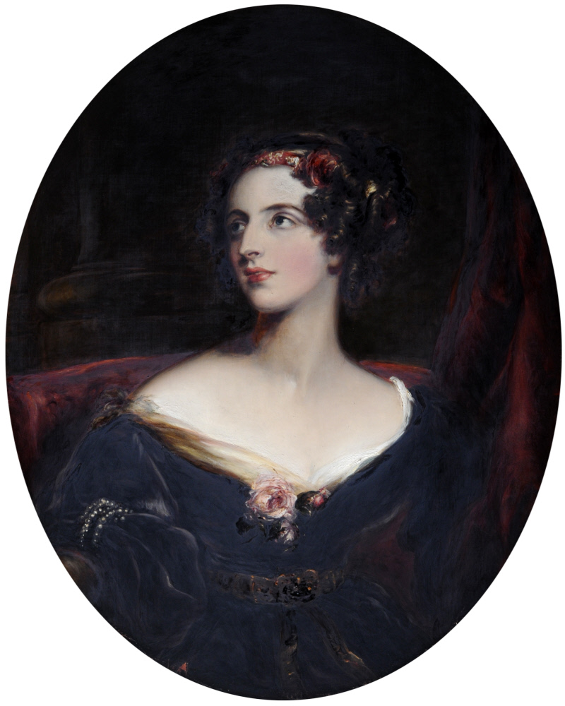 Oil painting on canvas, Lady Harriet Elizabeth Georgiana Howard, Duchess of Sutherland (1806 ? 1868) (after Sir Thomas Lawrence) by Reuben Thomas William Sayers (1815-1888). Half-length portrait, seated, facing, head to left, wearing dark dress with rose.